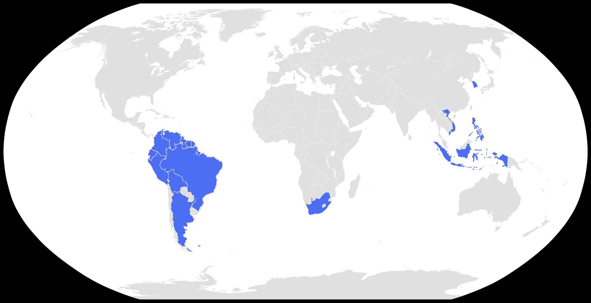 7Wonders of Nature of the World (countries).